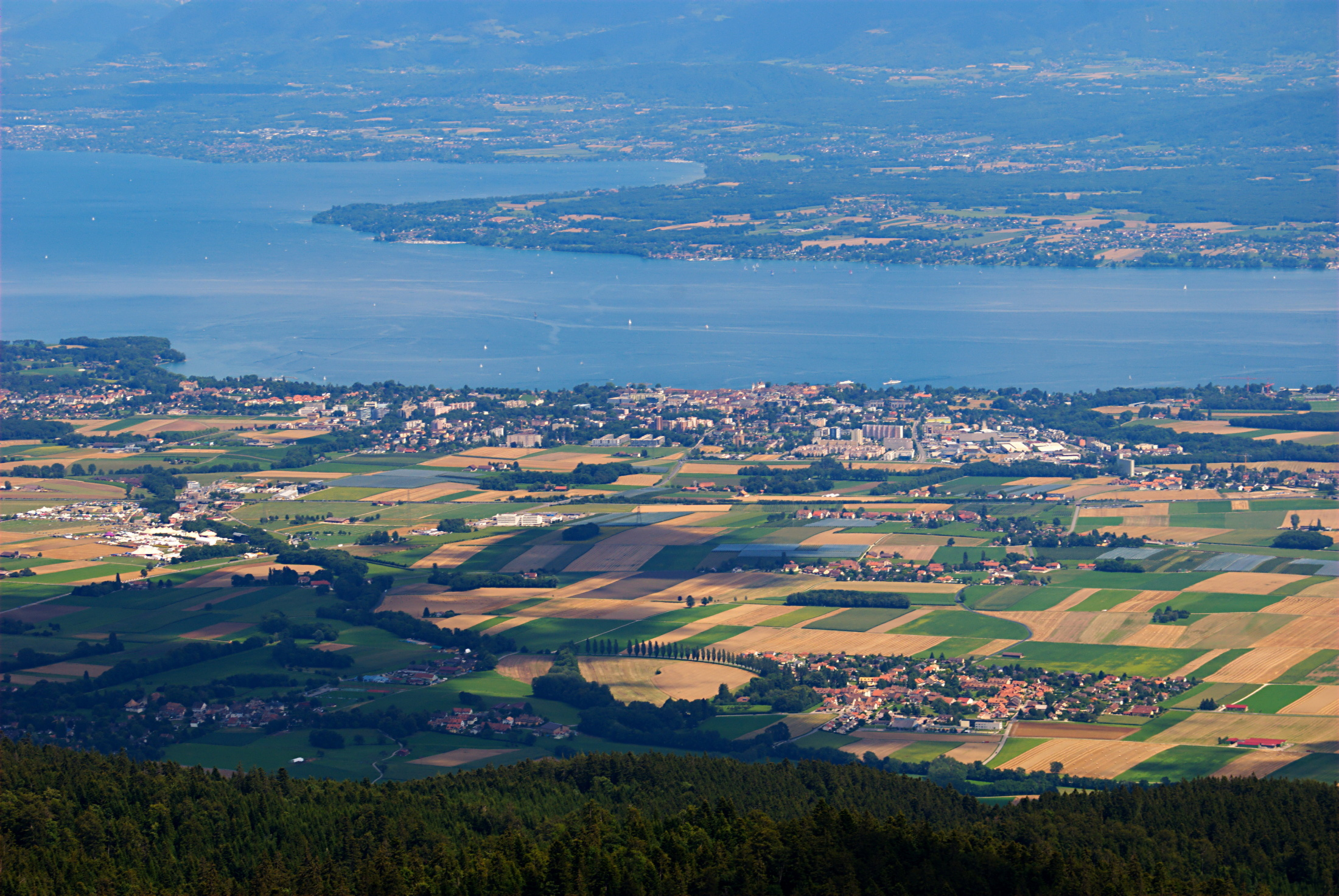 The town of Nyon, the lake Geneva, the french departement of Haute-Savoie, viewed from the La Dôle summit, in Switzerland.